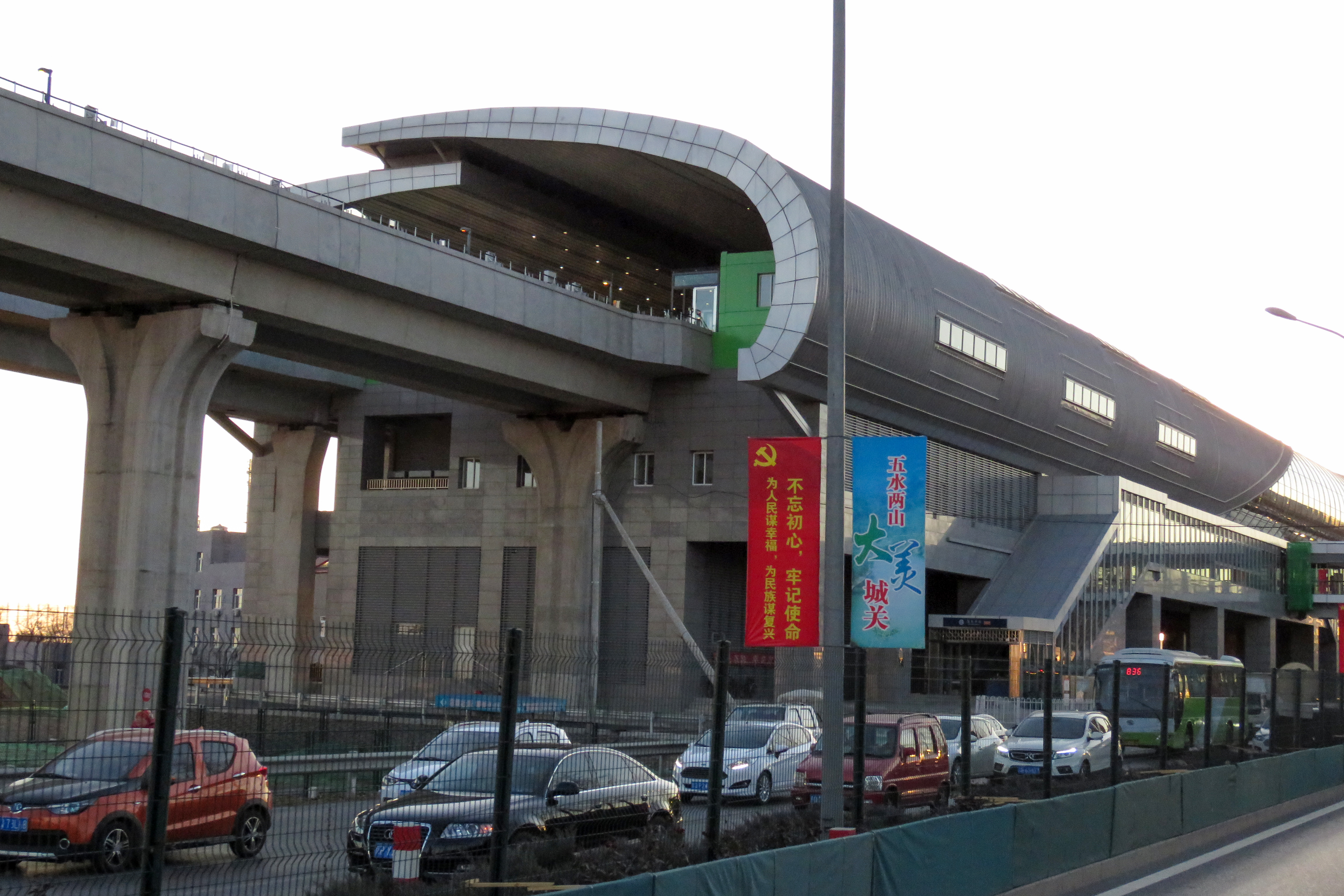 Taken from 836, with the greenish wall visible. What could be the "original intention" of MTROA?